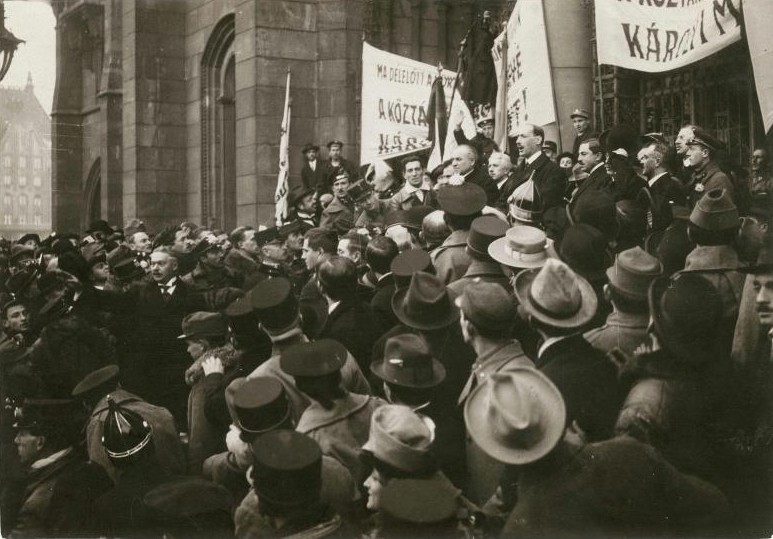 Mihály Károlyi se dirige a la multitud el día de la proclamación de la república húngara (16-11-1918).